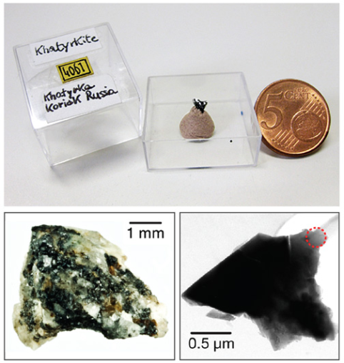 Small sample, about 3 mm across, of a Khatyrkite-bearing meteorite discovered in the mineral collection at the Museo di Storia Naturale in Florence, Italy. On January 1, 2009, Paul Steinhardt's Princeton lab identified the signature diffraction pattern of a quasicrystal embedded next to the khatyrkite and other minerals, thereby establishing evidence of the first natural quasicrystal. The sample is mounted on a pyramid-shaped piece of clay next to a 5 cent (euro) coin to illustrate its size.